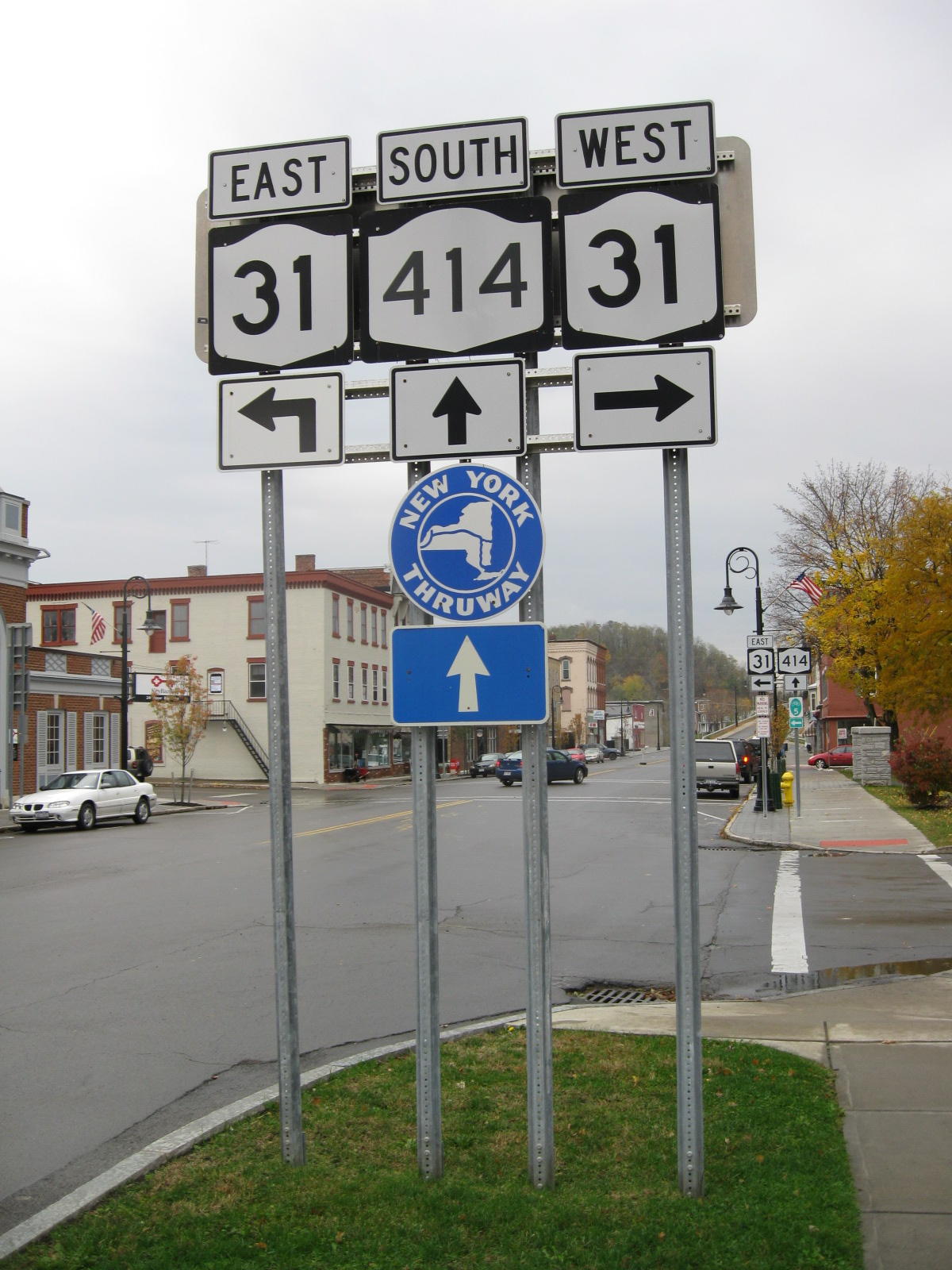 Looking south along New York State Route 414 at New York State Route 31 in Clyde. Both ends of NY 414's very short, half-block overlap with NY 31 are visible here.